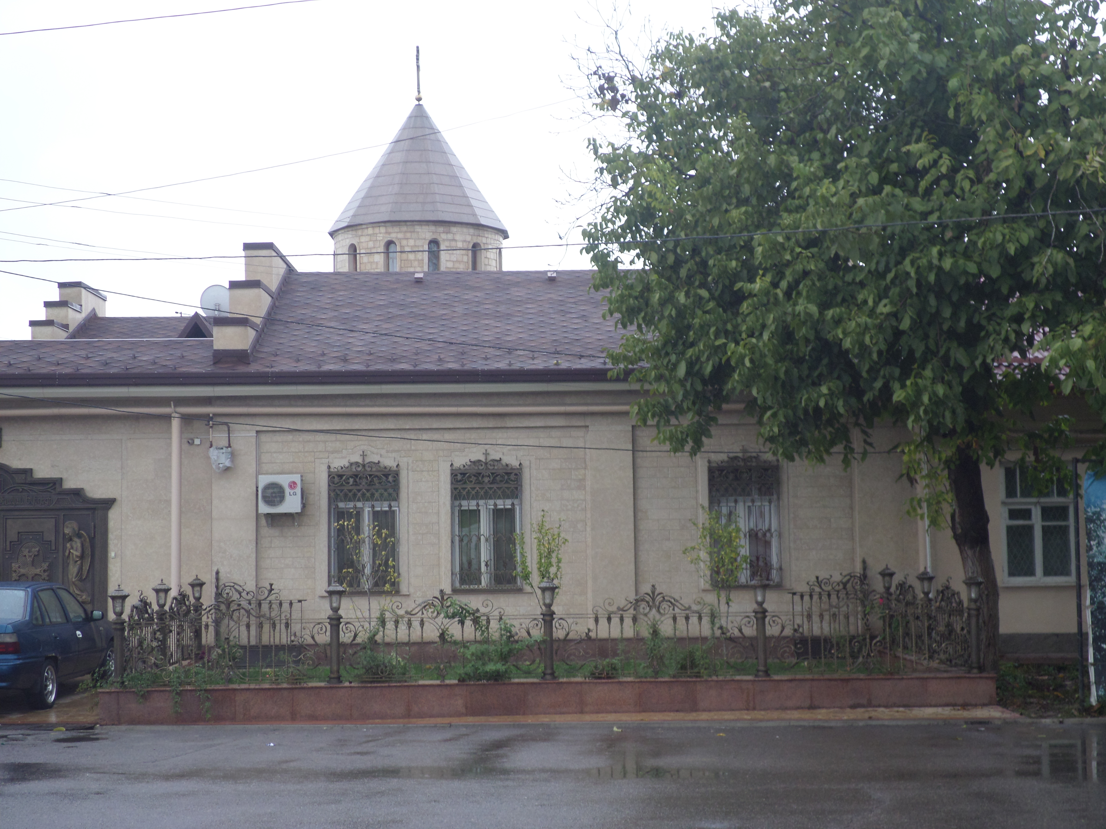 Church of St. Felipe in Tashkent